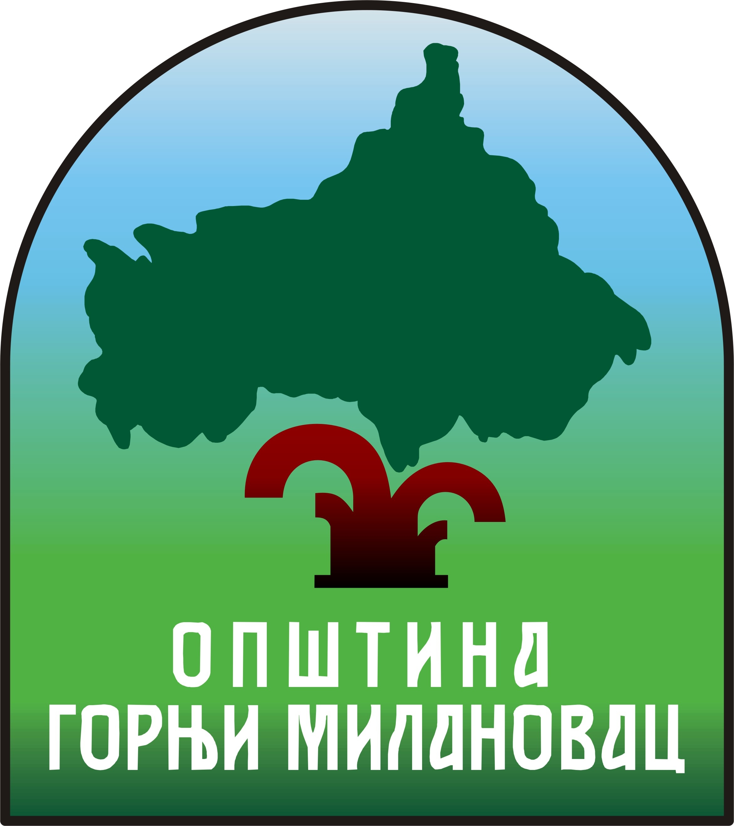 Coat of arms of Gornji Milanovac, Serbia